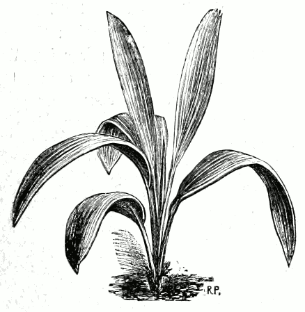 Figure from book